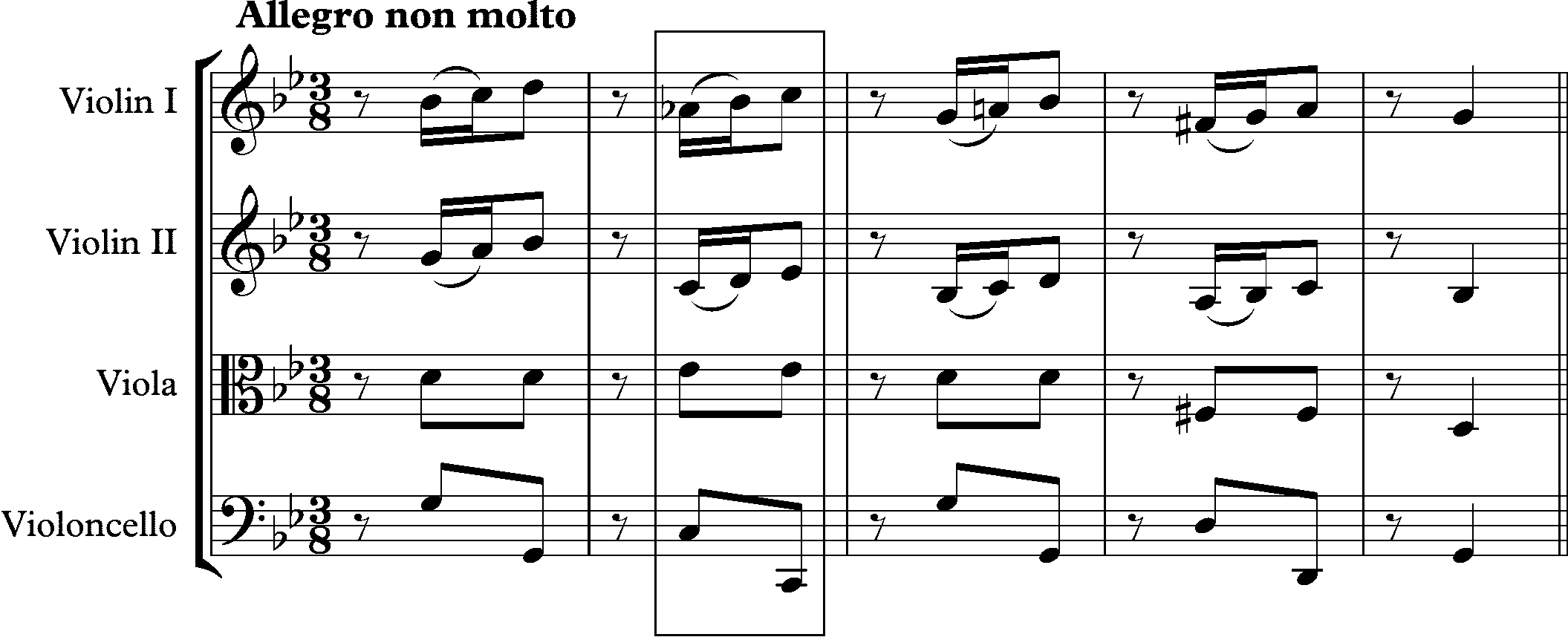 Vivaldi Summer, 1st movement, bars 26-30